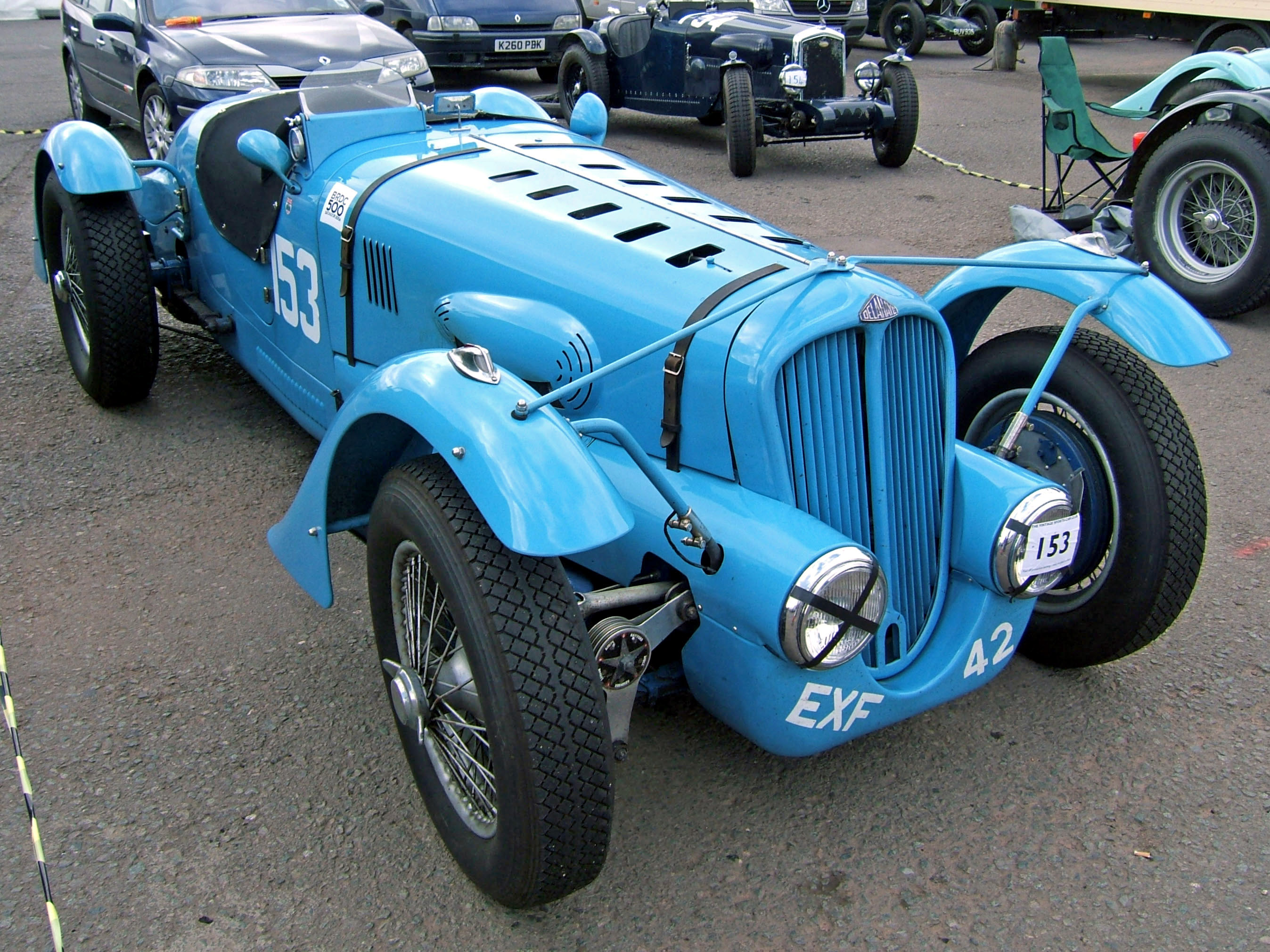 A Delahaye 135 waiting in the paddock of the VSCC SeeRed race meeting, Donington Park, September 2007.